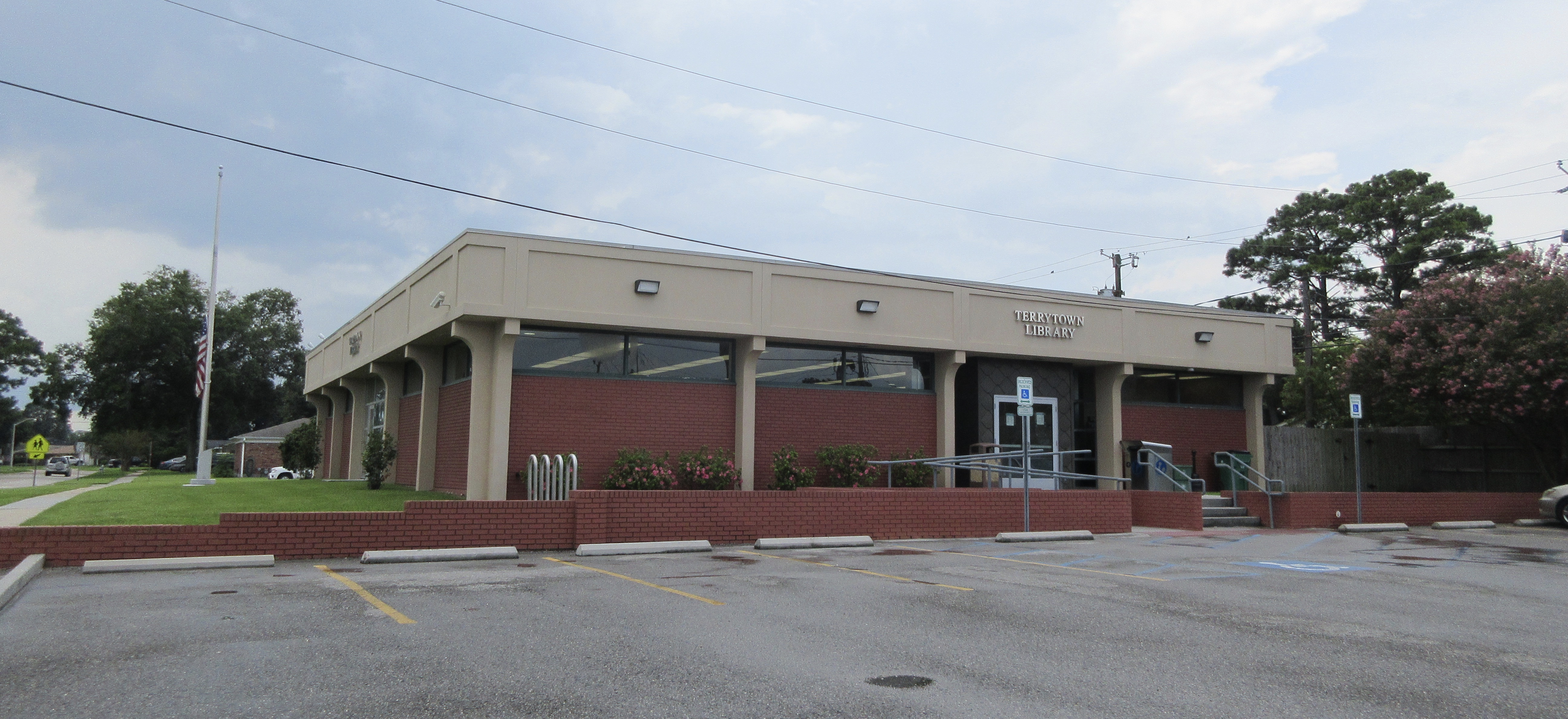 Terrytown, Louisiana. Terrytown Library. Photo by Infrogmation of New Orleans, July 2016.